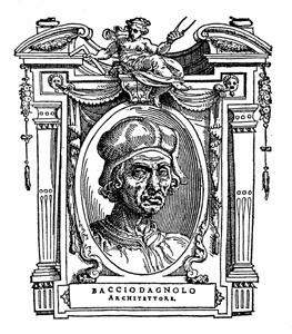 Illustratio from "Le Vite" by Giorgio Vasari, edition of 1568. For the artist portrayed see filename